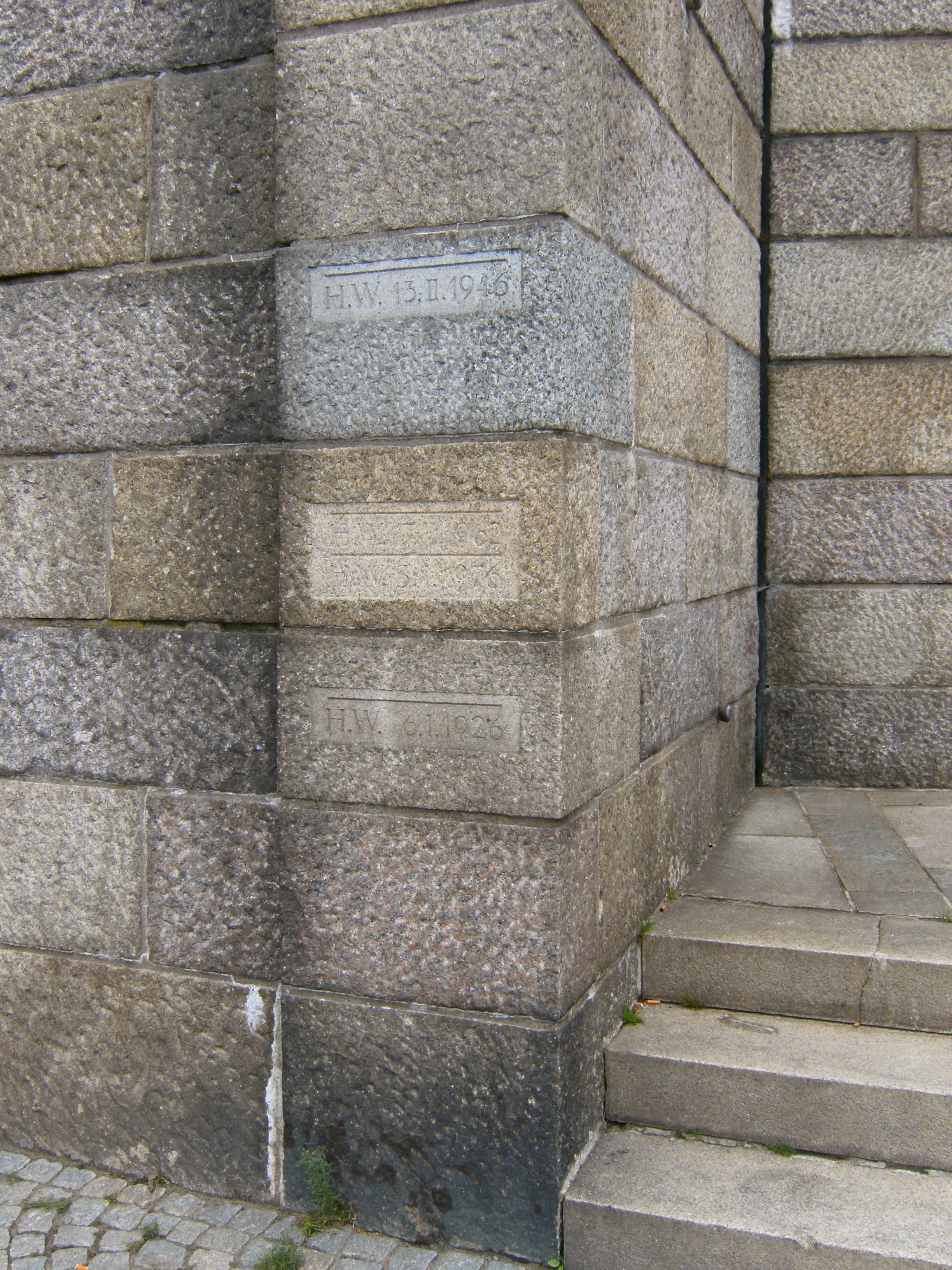 Flood level signs at Weser river in Bremen (state). Location at Weserpromenade/Wilhelm-Kaisen-Brücke.